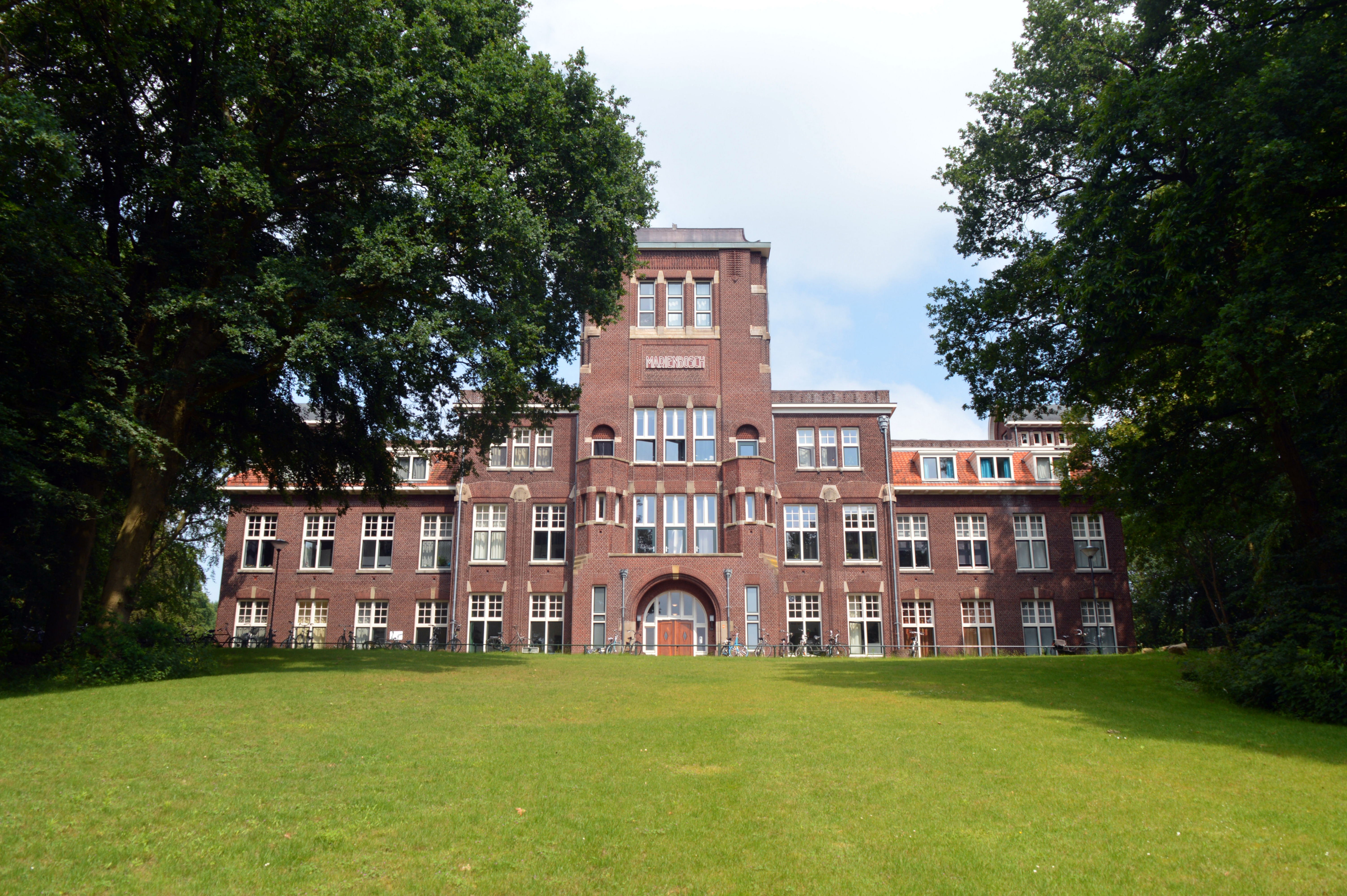 The former monastery Mariënbosch Front facade Art Deco Amsterdam School Charles Estourgie Nijmegen 1924